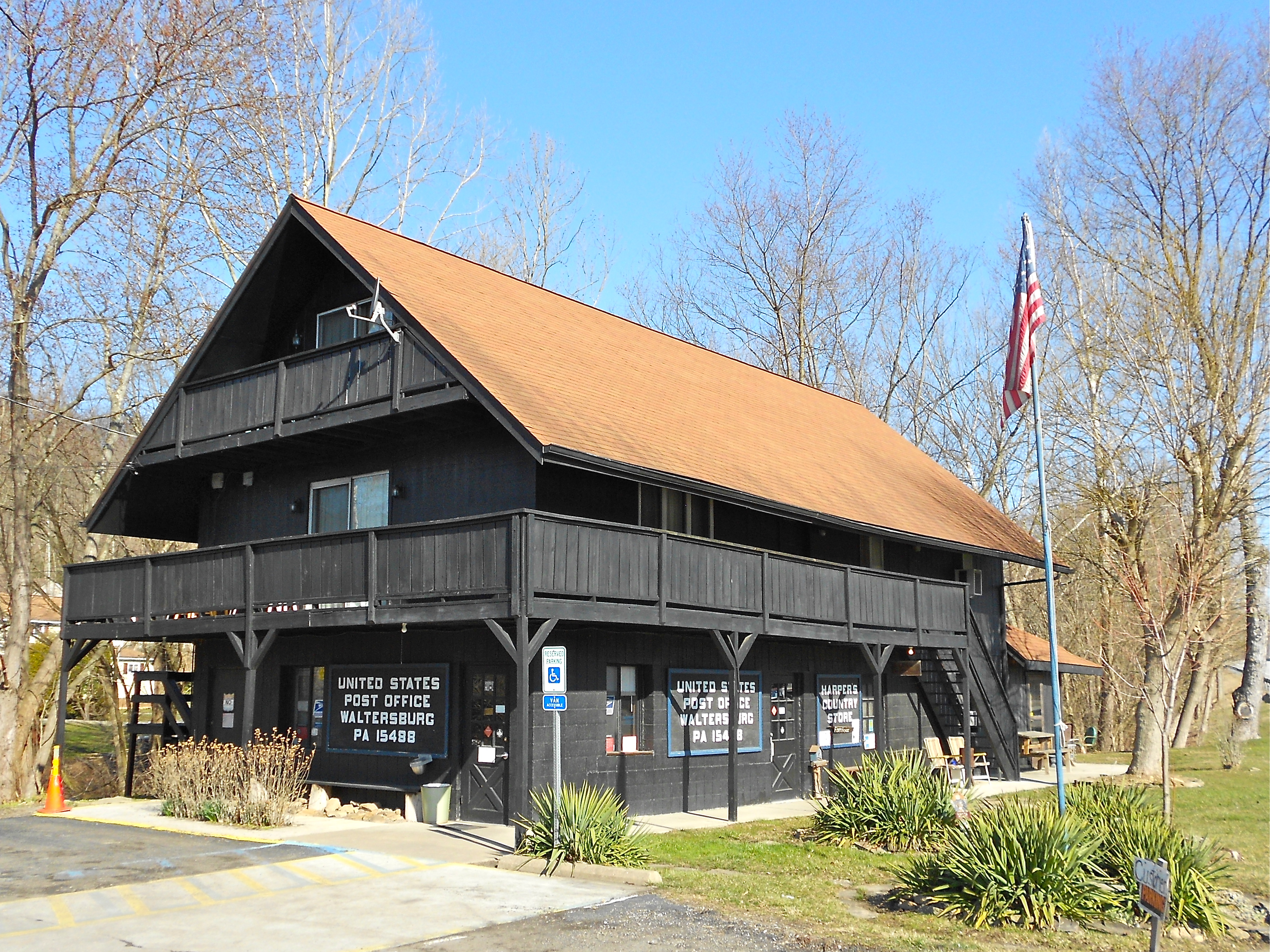 Post Office in Waltersburg, Pennsylvania - also includes a "Country Store" in Fayette County